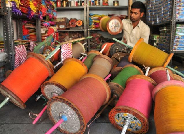 Maja